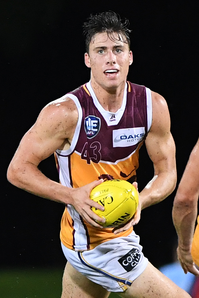 Noah Answerth of the Brisbane Lions during the NEAFL round one match between NT Thunder and Brisbane Lions at TIO Stadium on 6 April 2019 in Darwin, Australia.